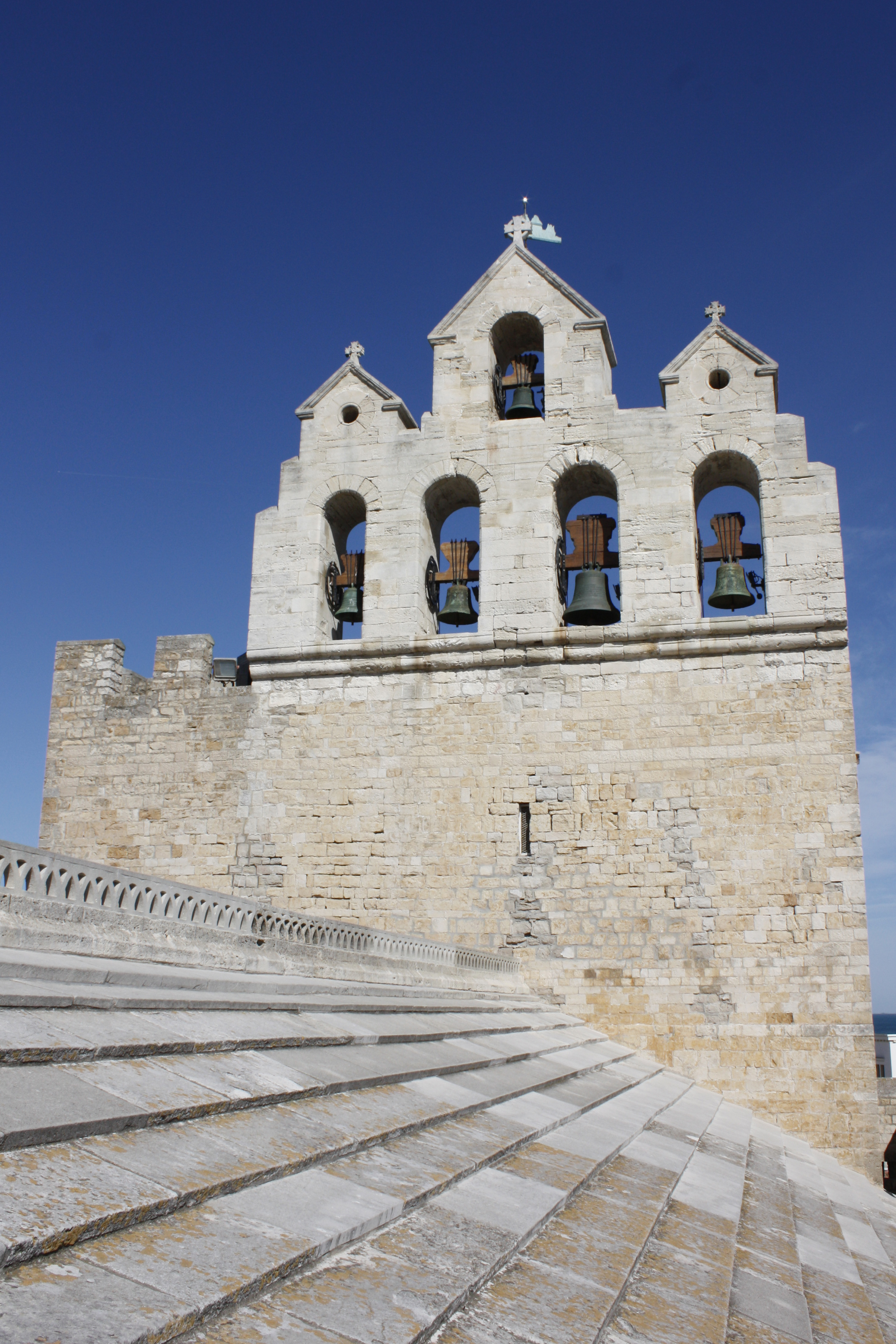 Roof and walkway's of the church.